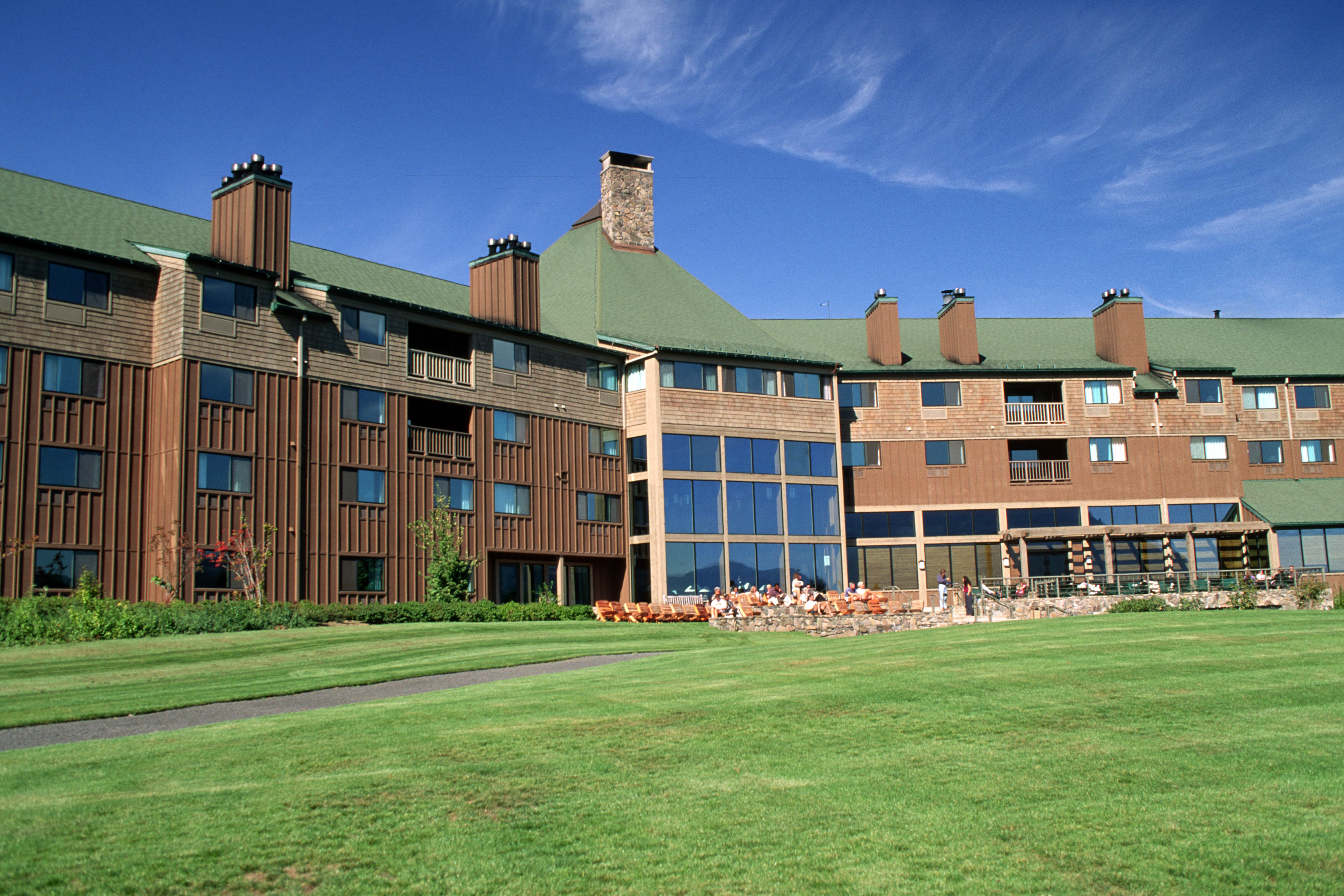 Skamania Lodge, Columbia River Gorge National Scenic Area.jpg